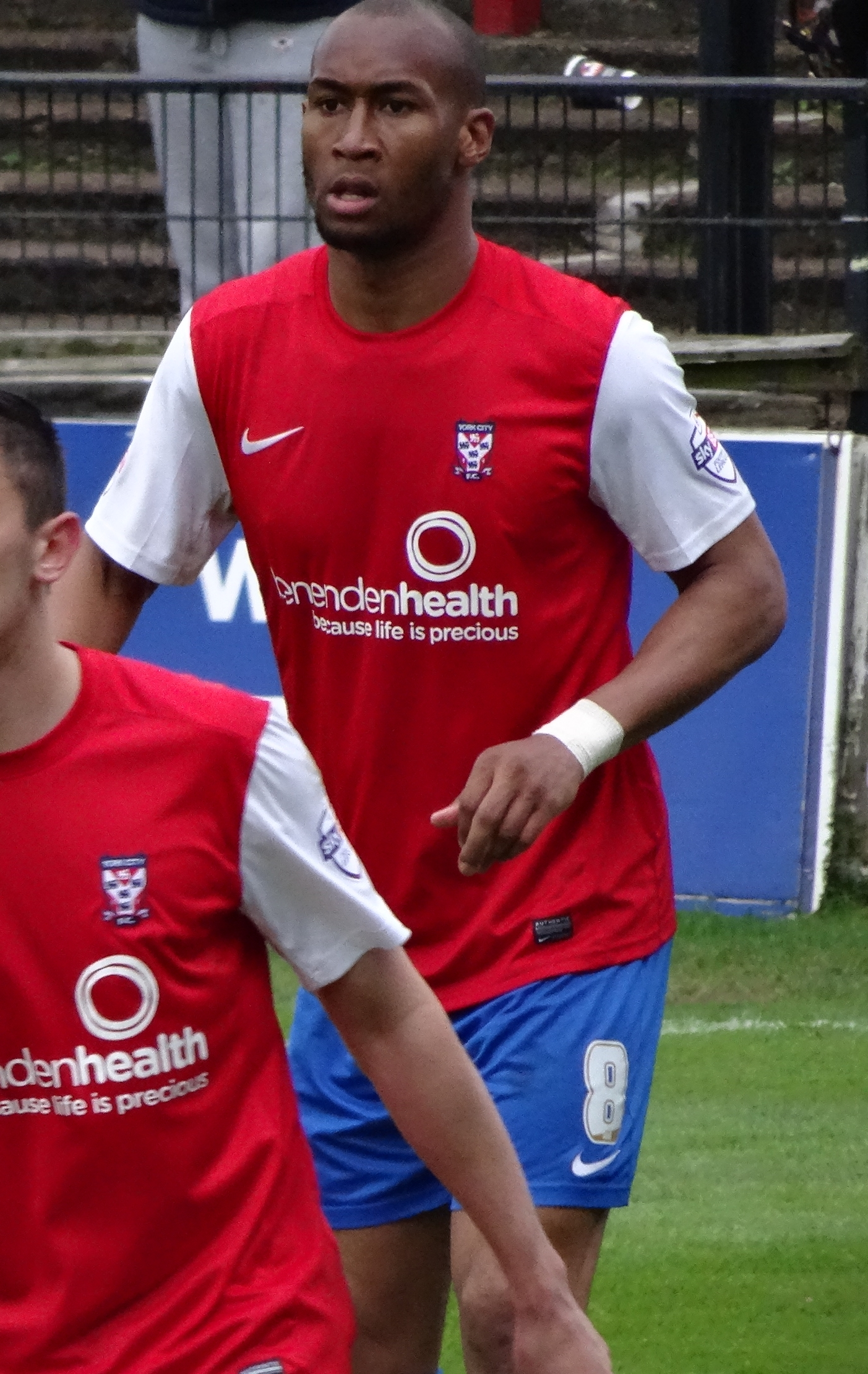 Calvin Andrew playing for York City against Accrington Stanley at Bootham Crescent, York on 12 April 2014